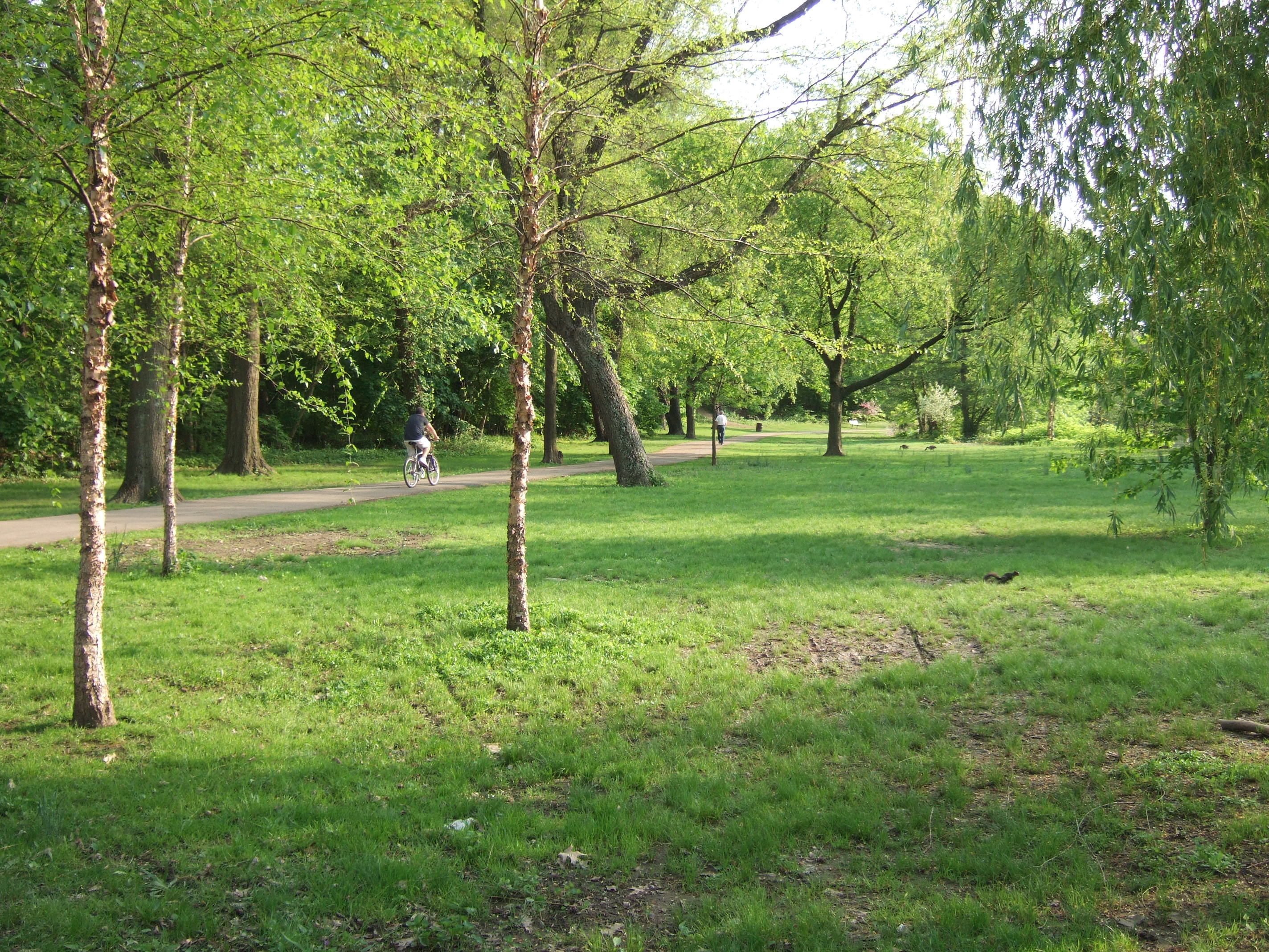 Looking south, between the Bronx River and the Bronx River Parkway, in Bronxville.